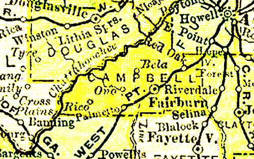 Map of Campbell County, Georgia from 1895